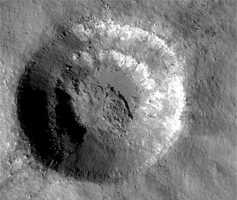 Samir lunar crater - LROC NAC image - M104740941LE.